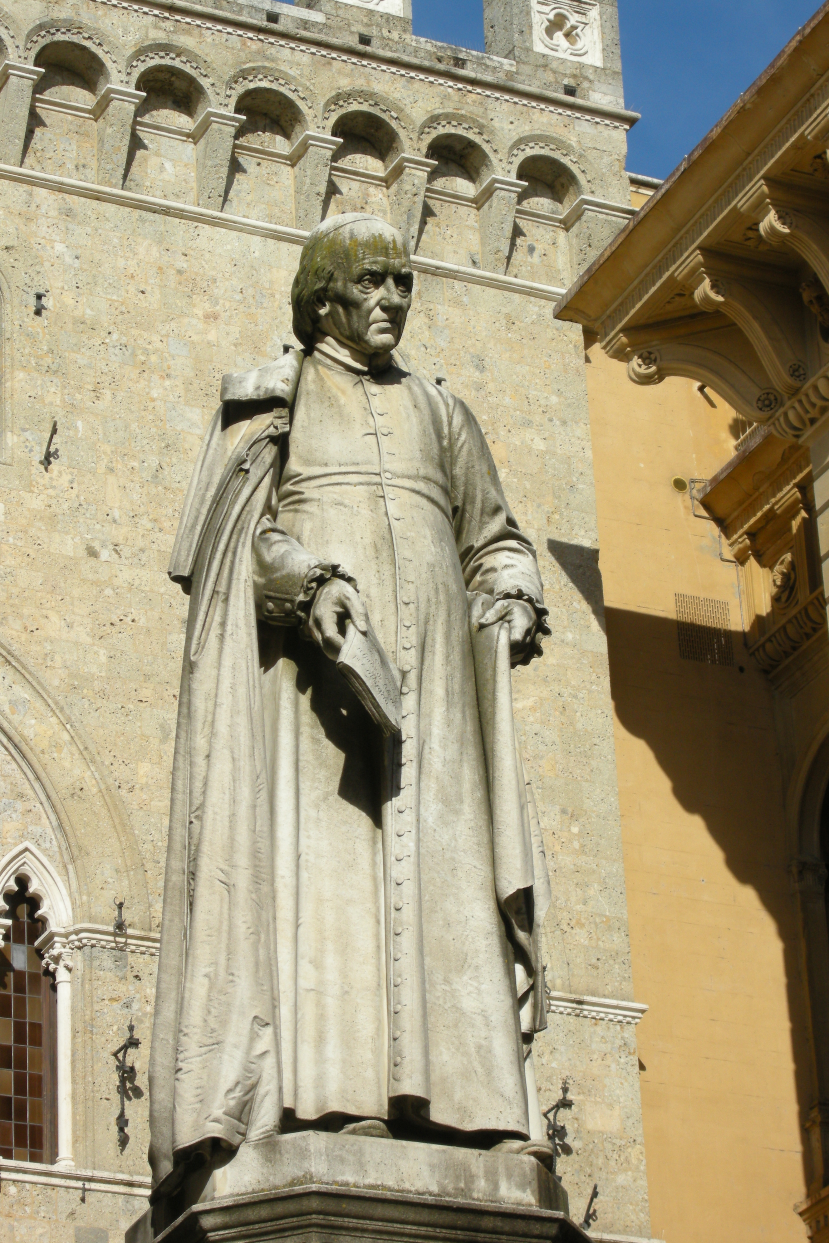 Sallustio Antonio Bandini (April 19, 1677 - June 8, 1760) Italian priest, politician and economist.